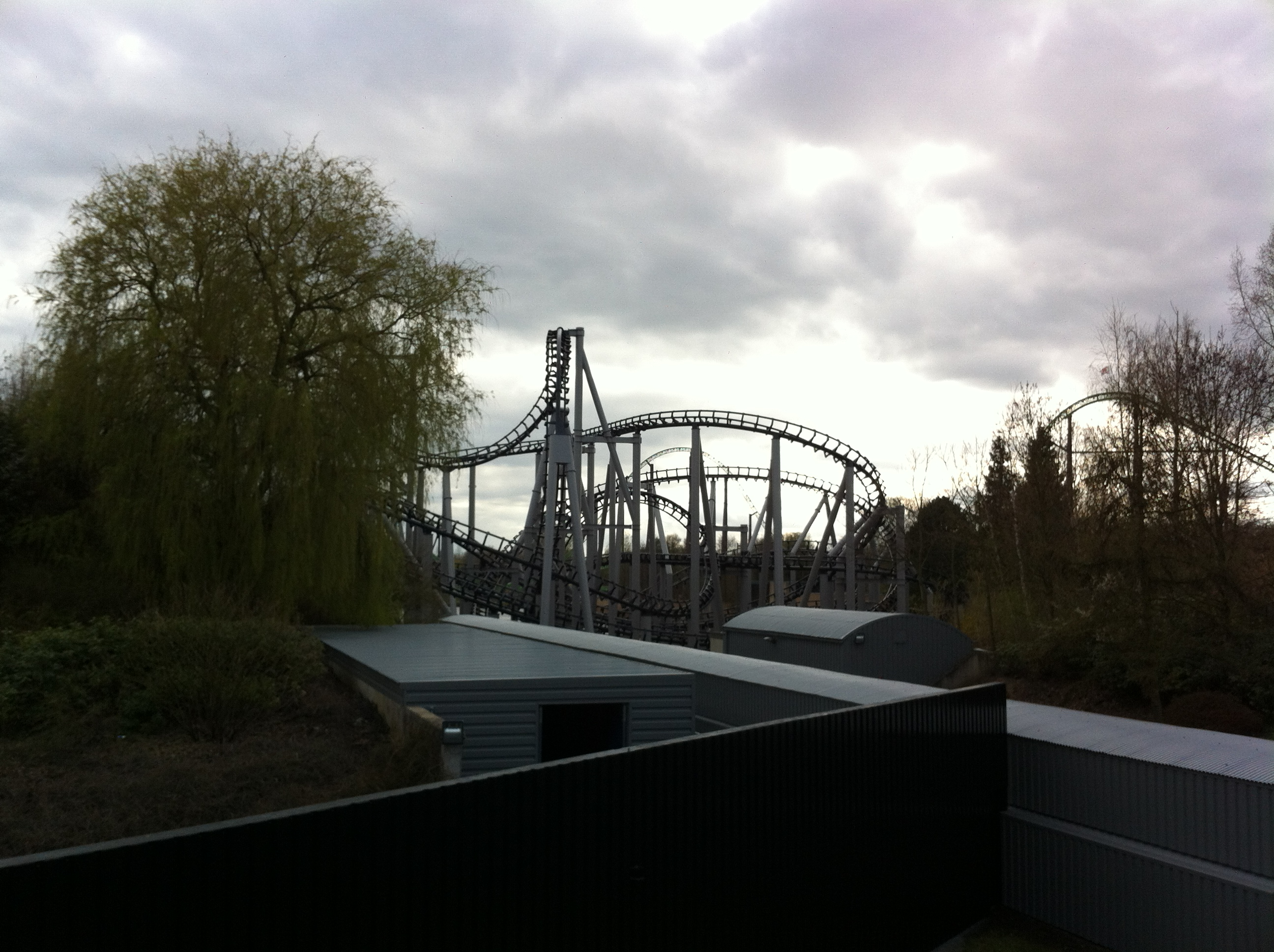 Xpress with new color scheme at Walibi Holland.